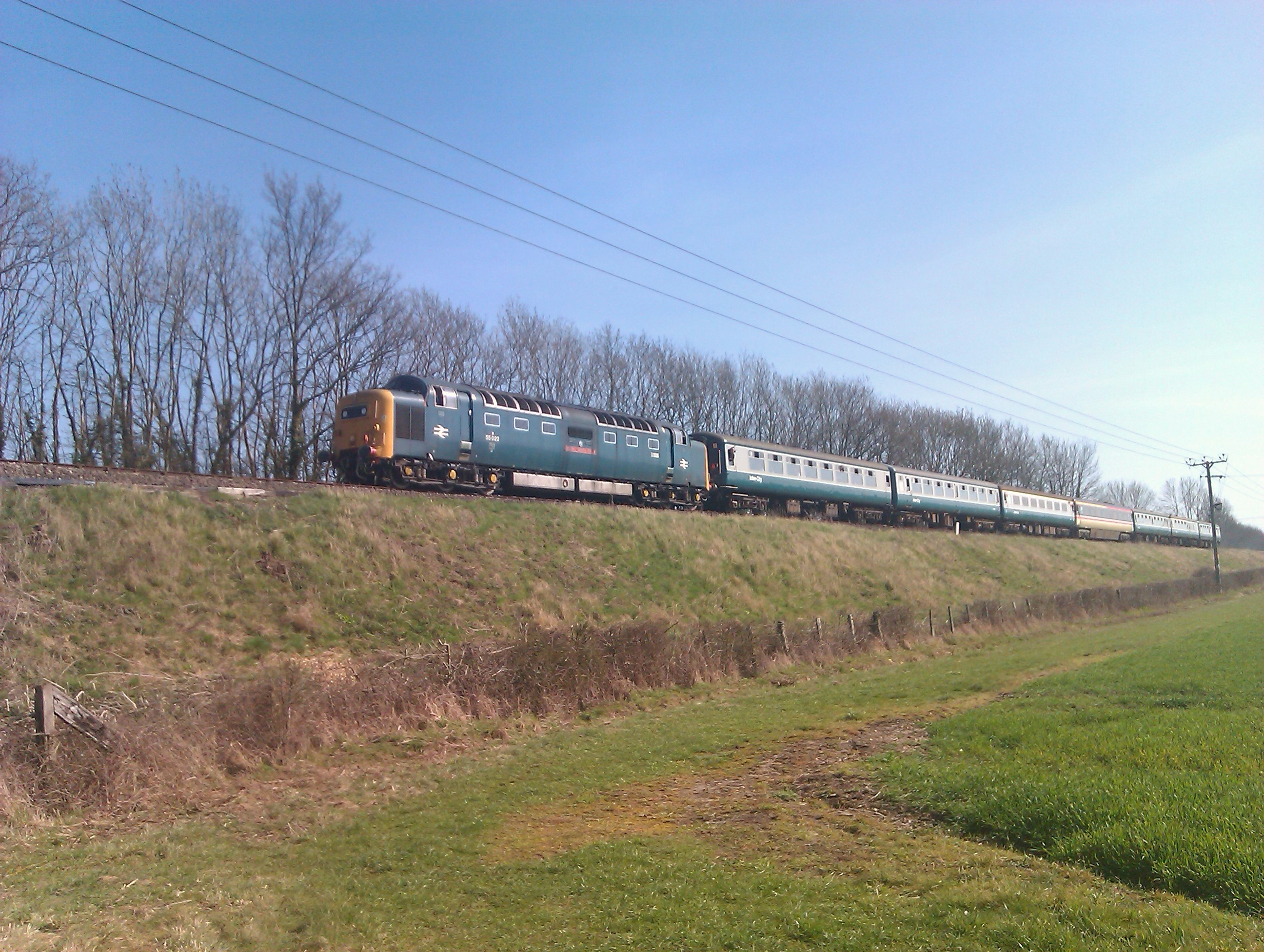 Class 55 Deltic, 55022, operating service train 1D10 on the Mid-Norfolk Railway on Sunday 1 April 2012. Pictured between Yaxham and Dereham.